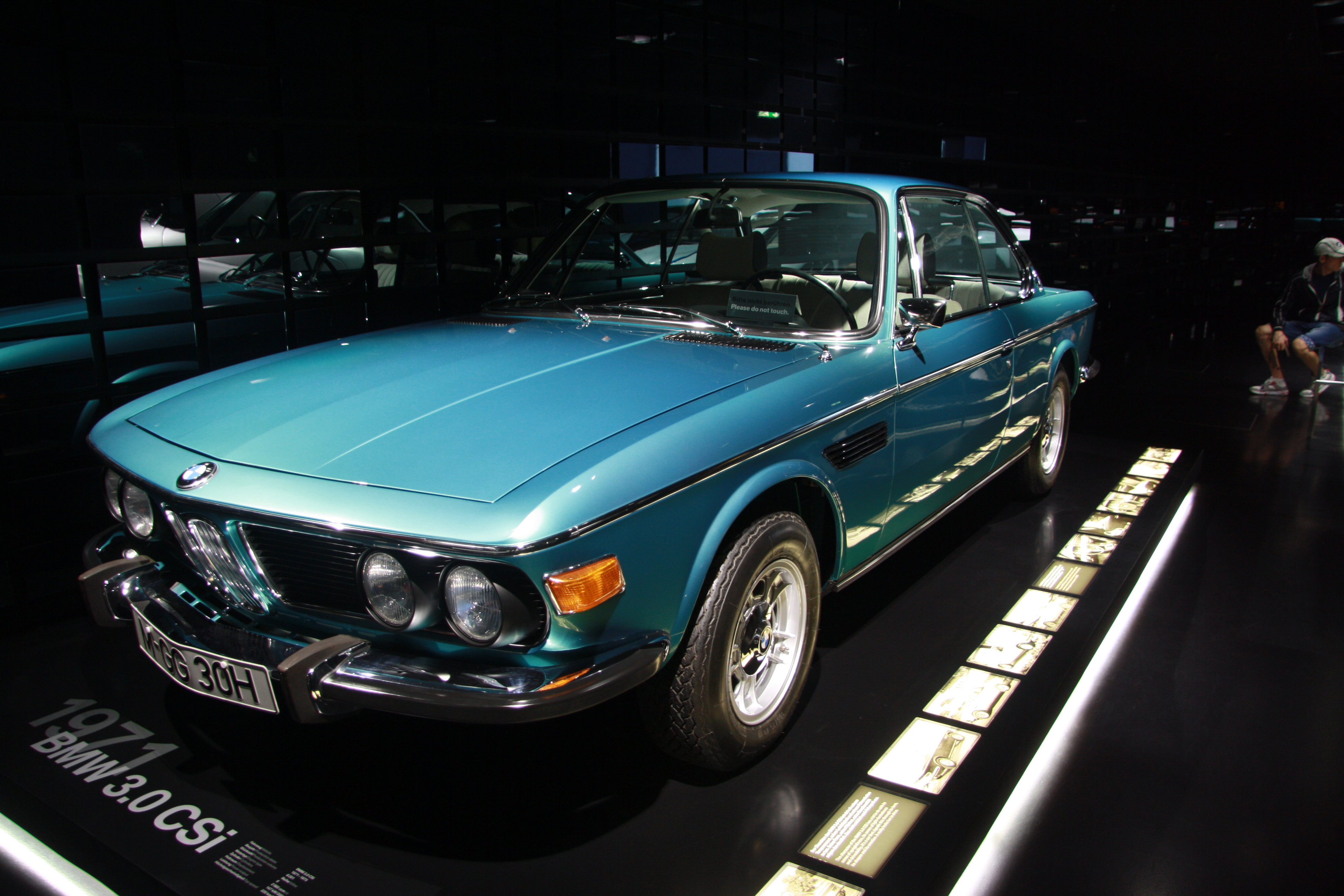 BMW 3.0 CSi in BMW-Museum in Munich, Bayern.